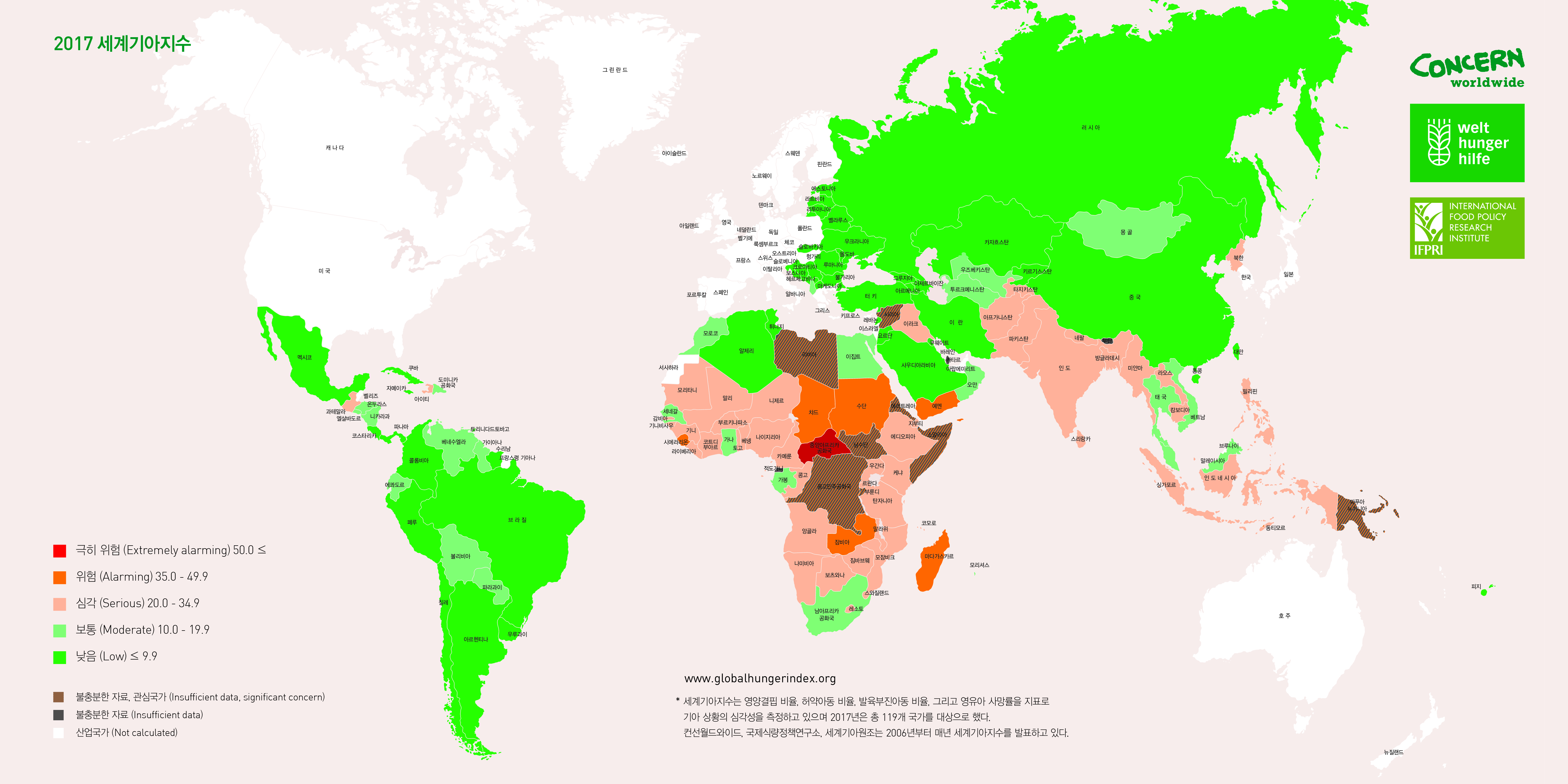 2017 Global Hunger Index Map (by Concern Worldwide, IFPRI, Welthungerhilfe) 조선말: 2017년 세계기아지수를 표시한 세계지도 (by 컨선월드와이드, 국제식량정책연구소, 세계기아원조)